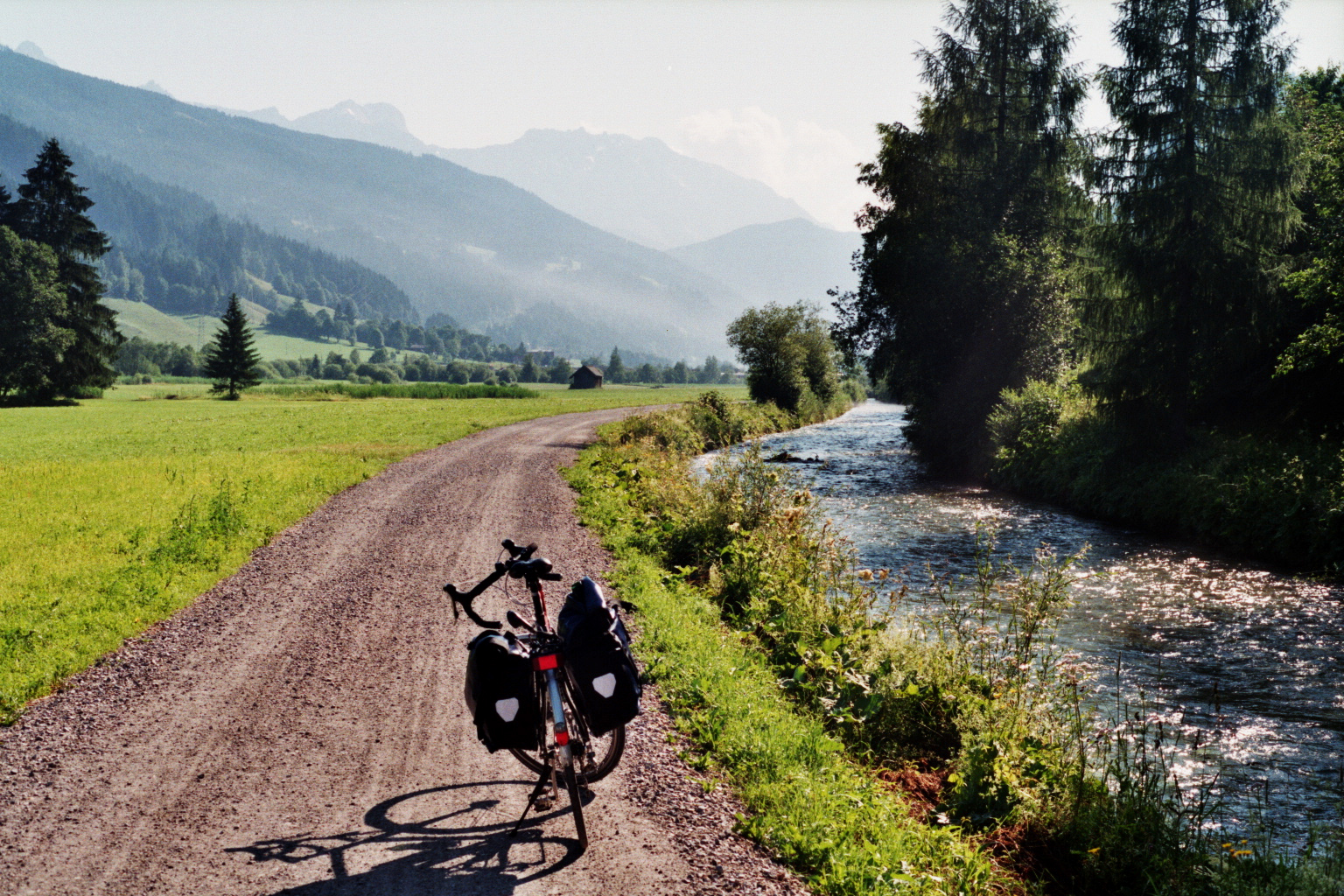 The Enns-Bikeway near Radstadt with the Enns river